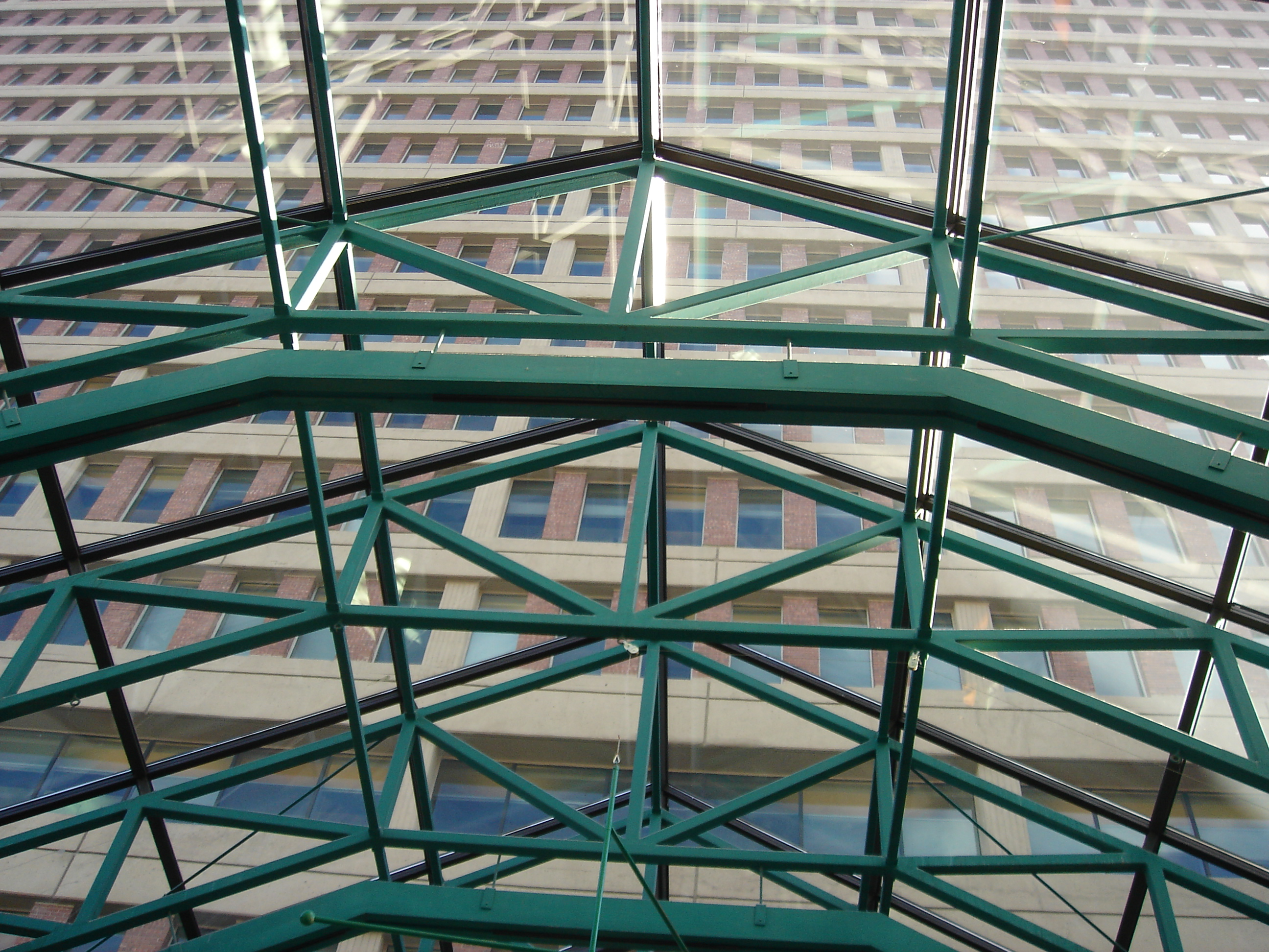 I am the author of this photo